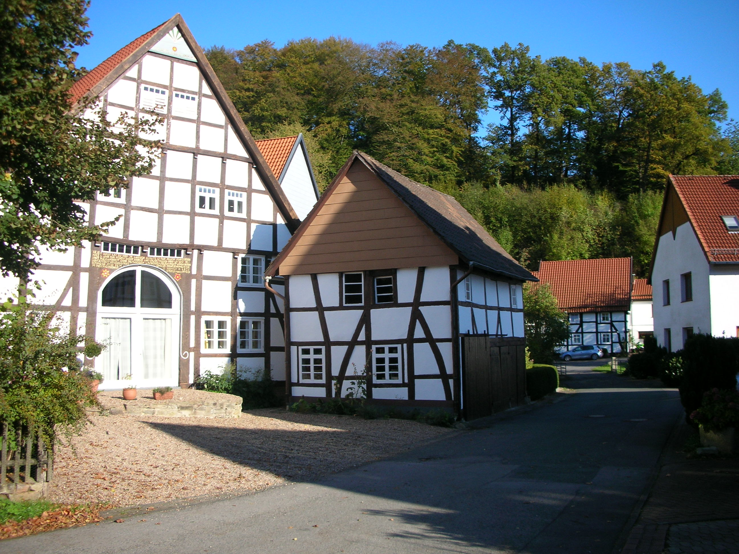 Timber framing styled street in the village Hillentrup, a part of the municipality Dörentrup